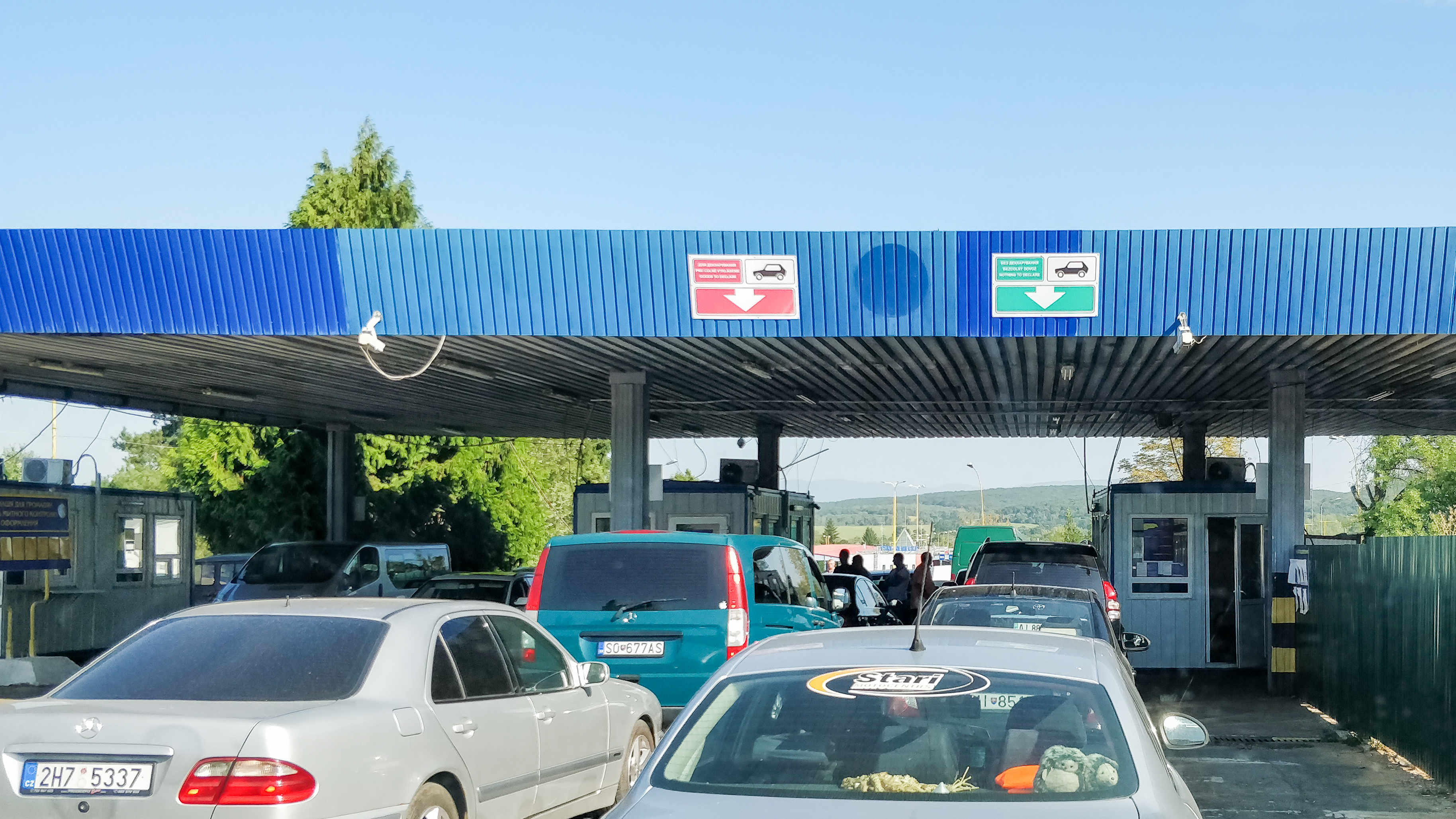 Border Uzhhorod-Vyšné Nemecké - Ukrainian side